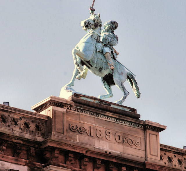 Clifton Street Orange hall, Belfast (detail) Clifton Street Orange hall was completed in 1885 to a design by William Batt. The bronze of King William III is by Harry Hems (Exeter). It was unveiled in 1889. This photograph appears as a matter of architectural record only and should not be interpreted as expressing any opinion for or against the loyal orders.